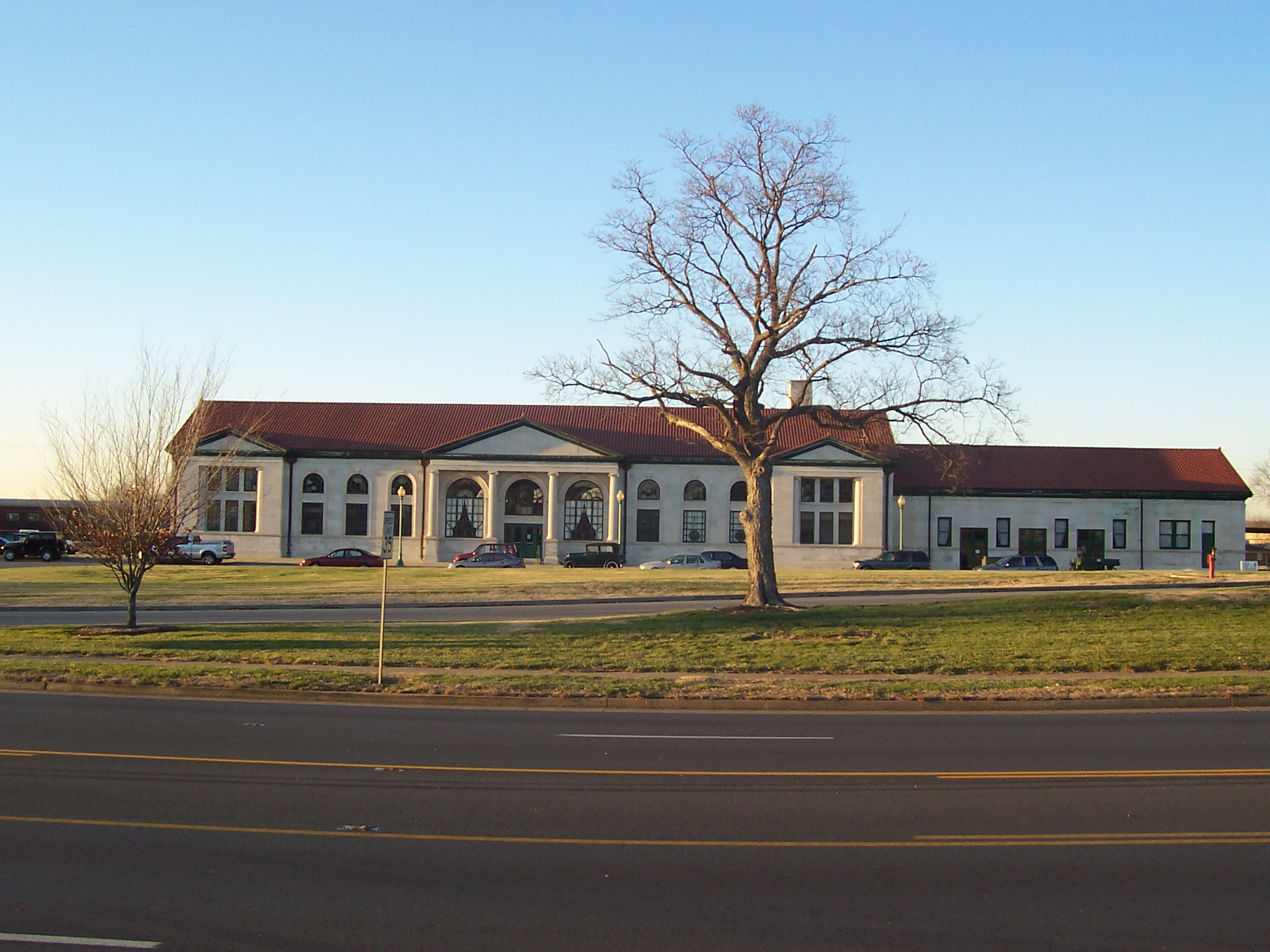 The Historic L&N Train Depot in Bowling Green, Kentucky housed a branch of the Bowling Green Public Library from 2001-2007.